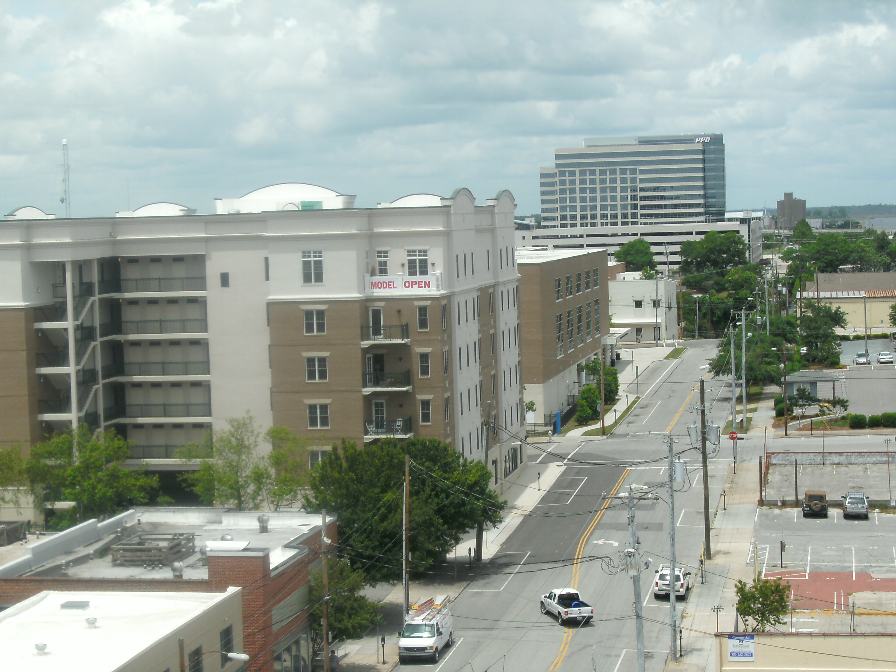 Downtown Wilmington to the north